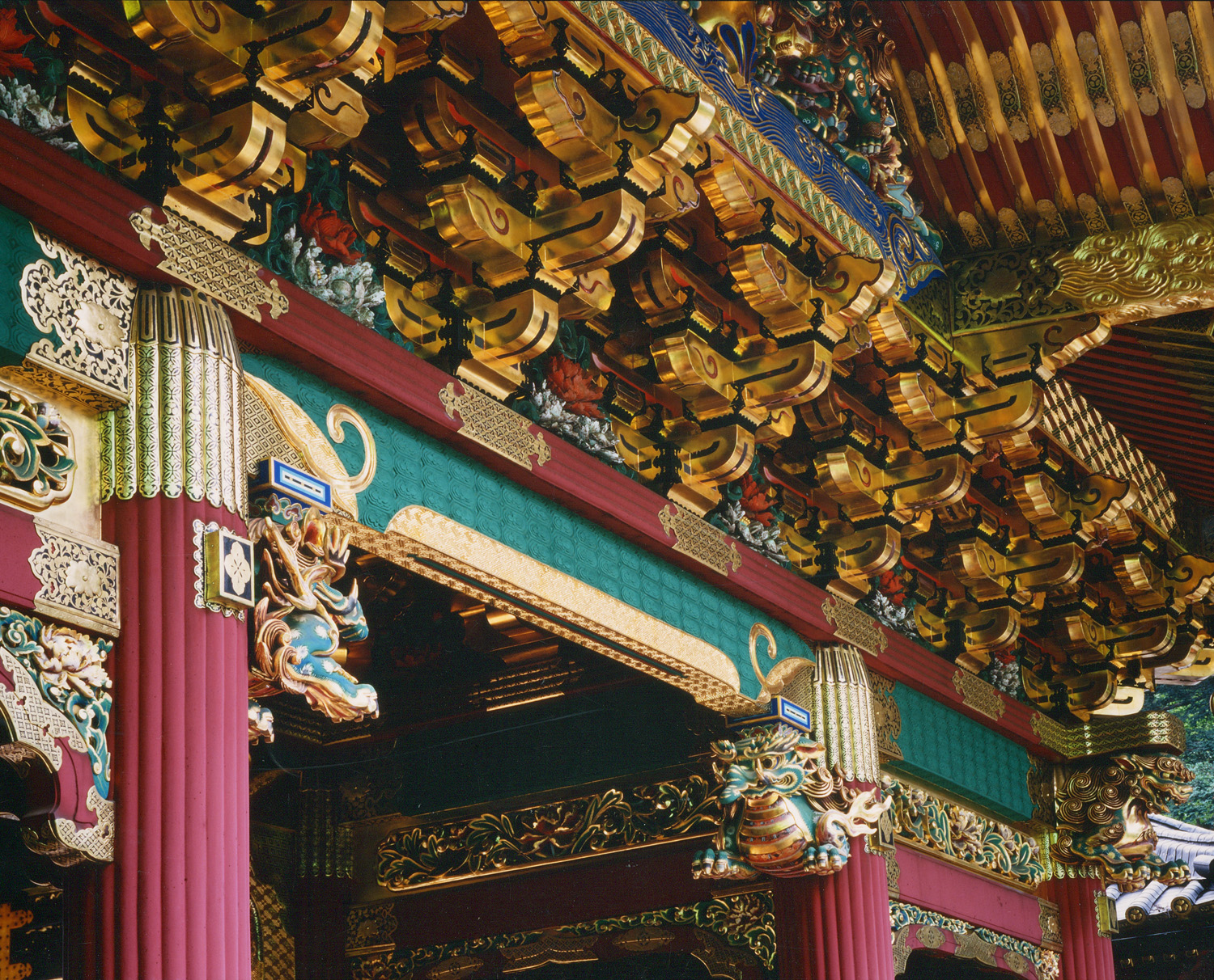 大猷院霊廟 Lavish Kumimono decoration above a gate at Taiyūin Reibyō Rinnō-ji Nikkō Tochigi Japan